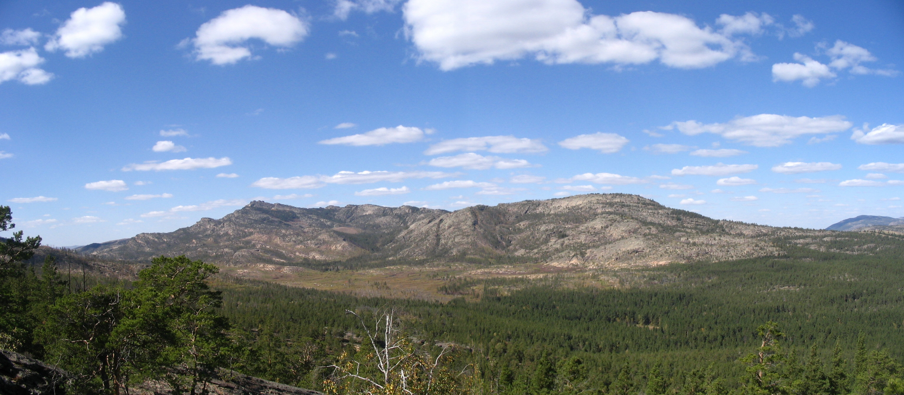 Reserve Karkaralinsky in Qaraghandy Province